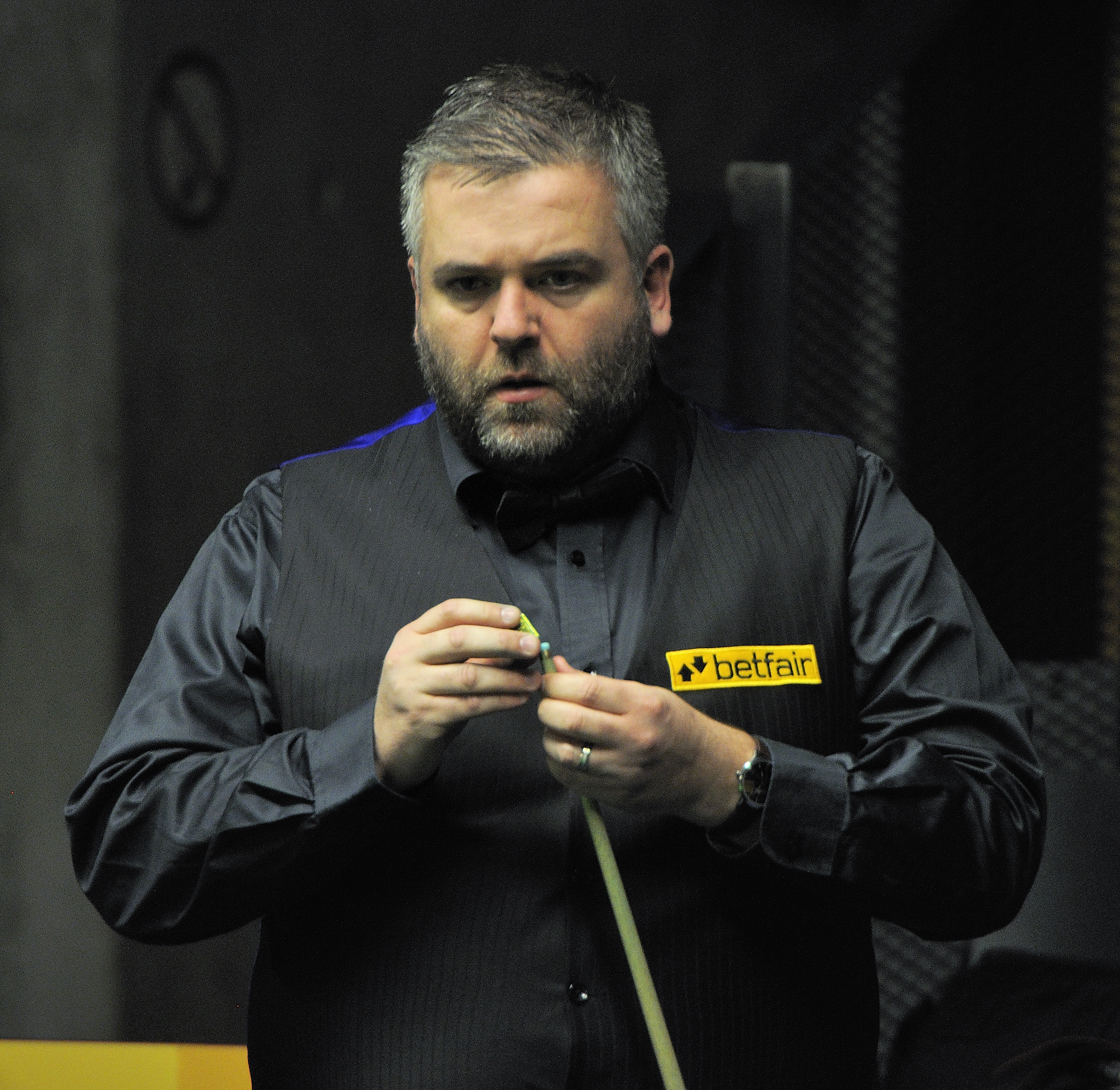 Picture taken in Berlin during the Snooker German Masters in 2013. Marcus Campbell.